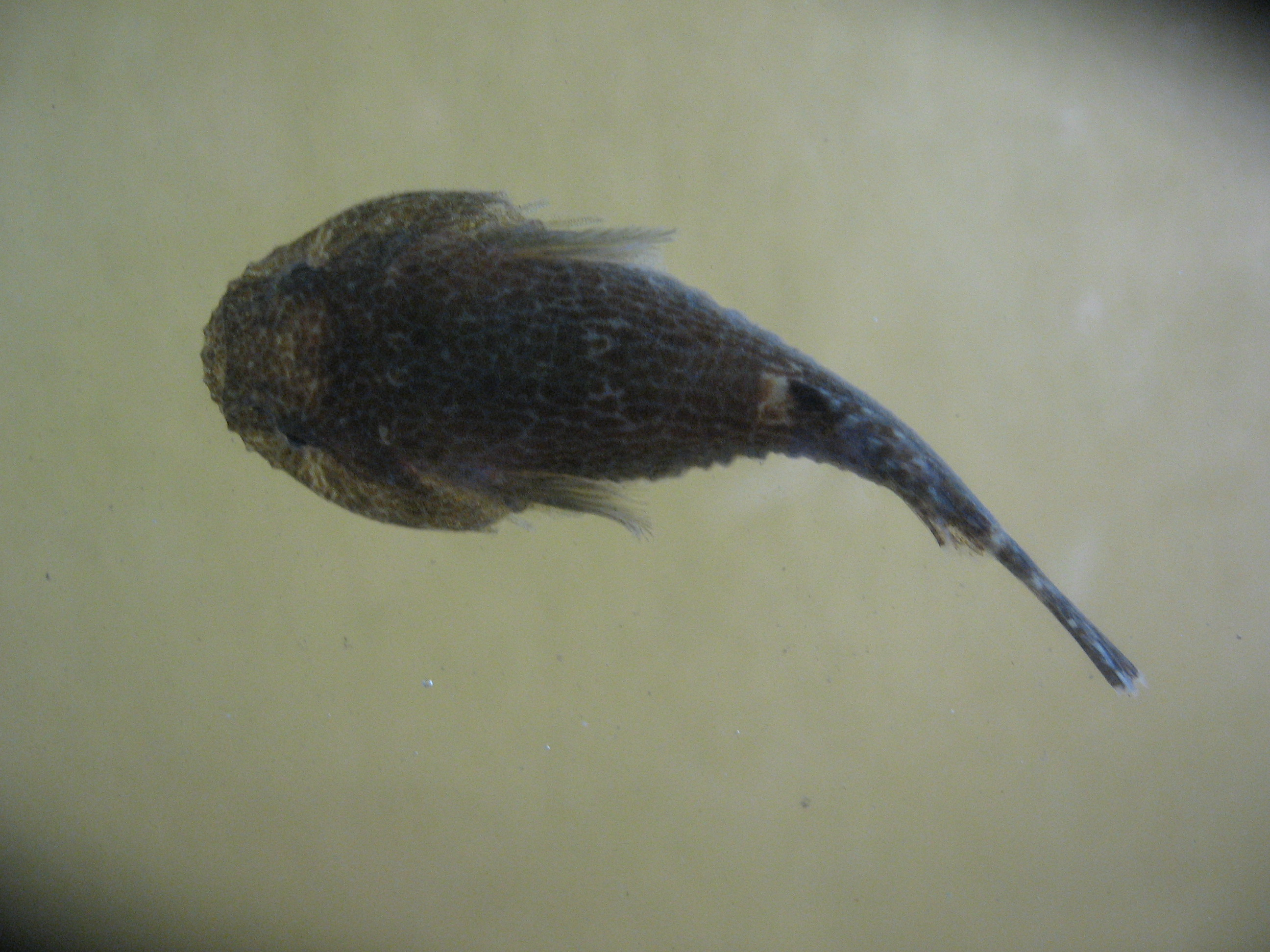 Example of adult Skilletfish